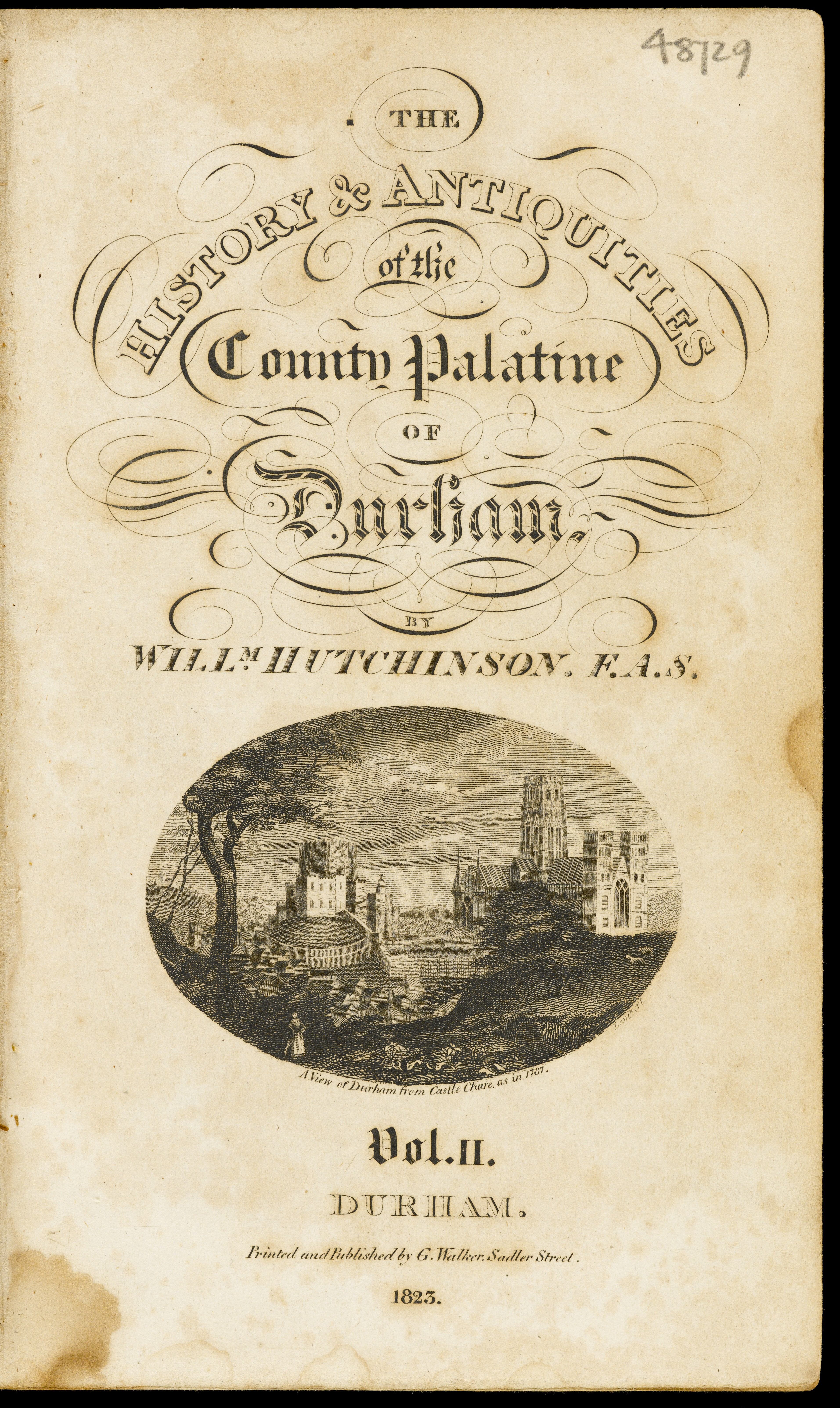 The history and antiquities of the County Palatine, of Durham. Showing a view of Durham from Castle Chare, as seen in 1787. Rare Books